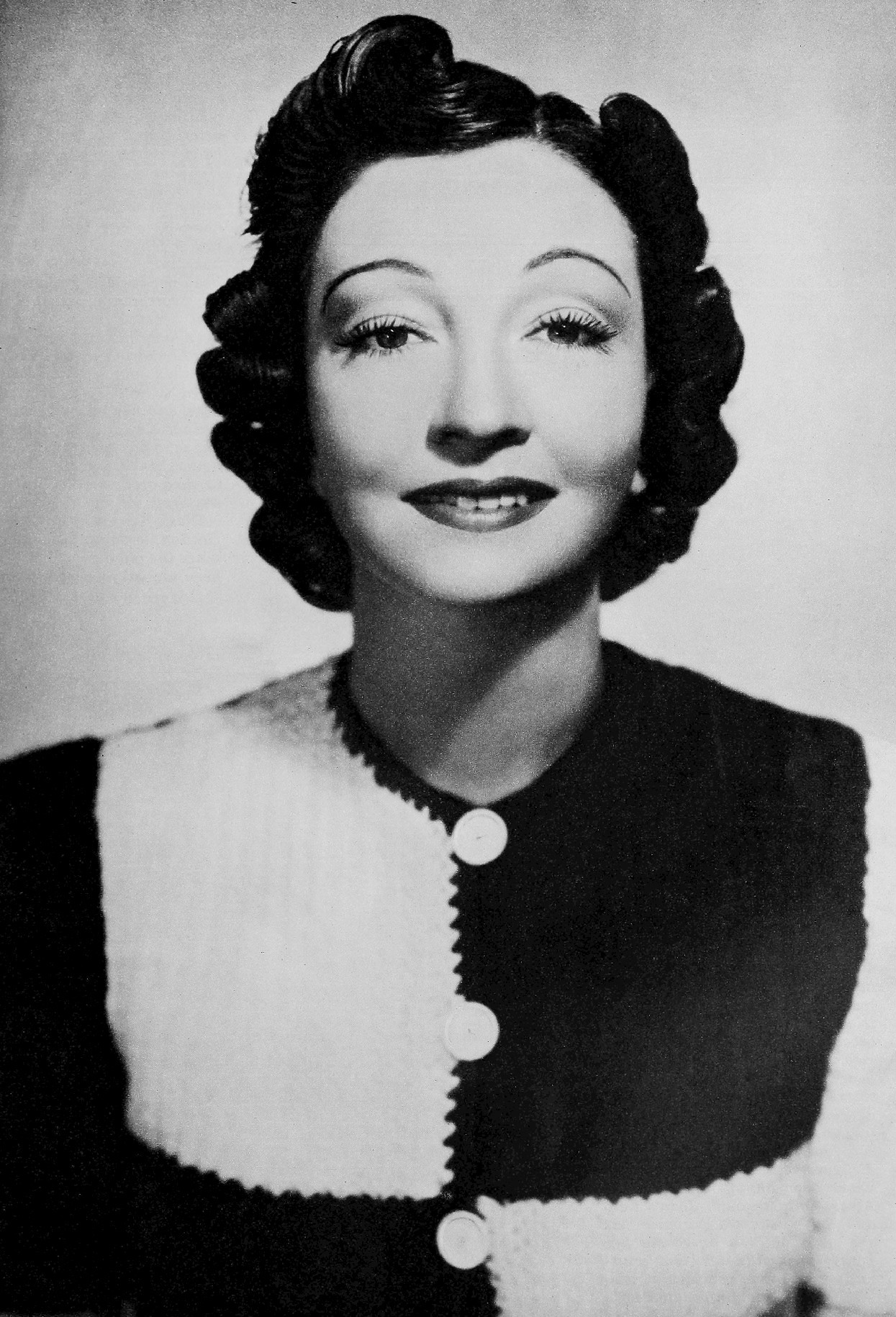 Photo of Joan Blaine from the June 1942 issue of Radio and Television Mirror. A search for renewal was done in periodicals for the years 1969 and 1970. There were no listings for this title; there's no evidence of copyright renewal for this magazine.